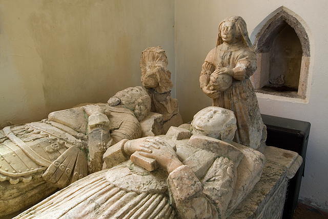 St Peter's church, Thornbury - monument to Humphrey Speccot & wife (detail 1)